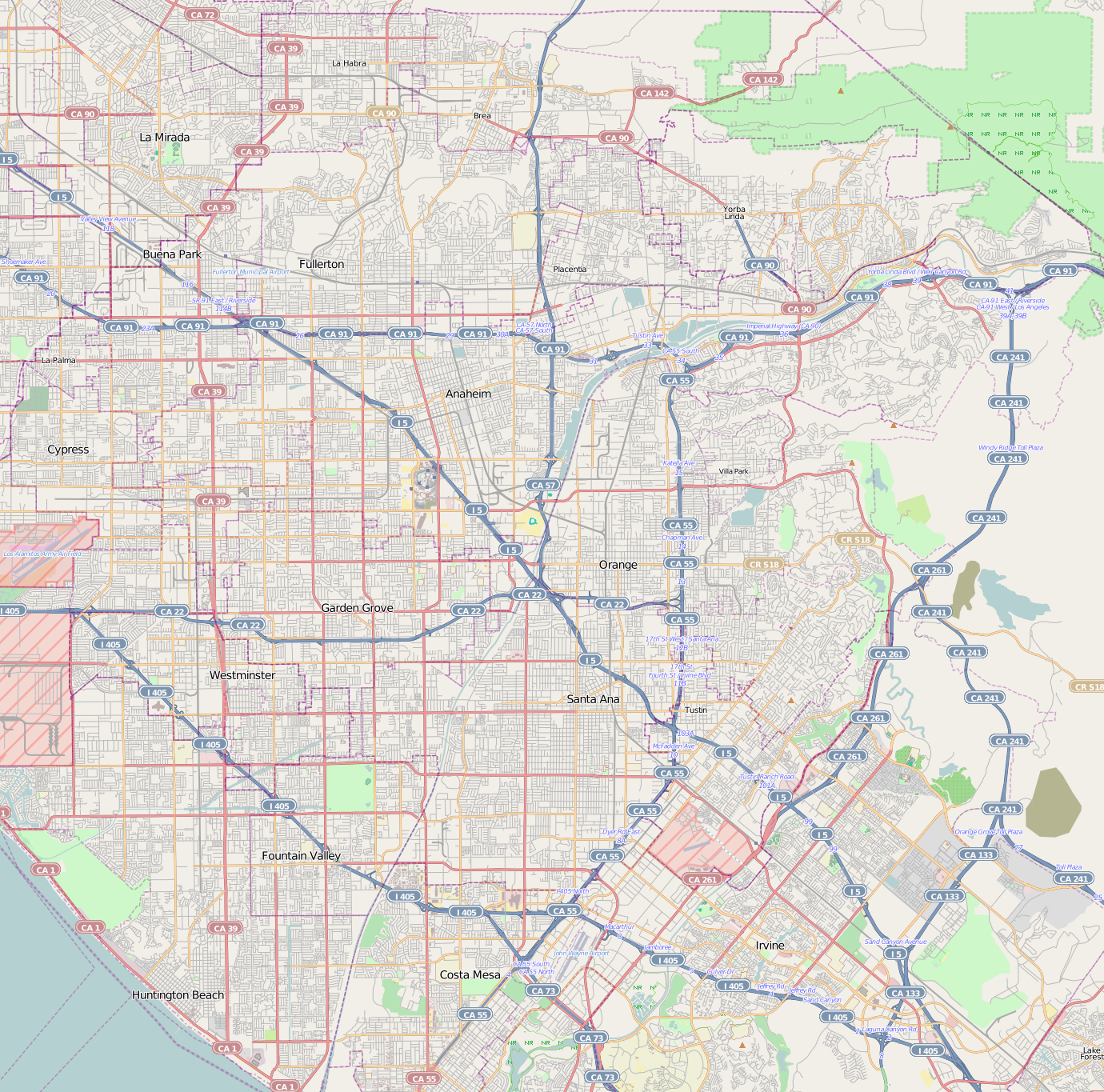 This map of Anaheim, California and vicinity was created from OpenStreetMap project data, collected by the community. This map may be incomplete, and may contain errors. Don't rely solely on it for navigation. Border coordinates33.95-118.067←↕→-117.68533.636